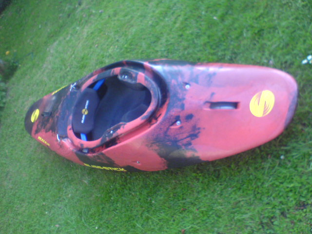 A Bliss-stick Blitz whitewater kayak / playboat.